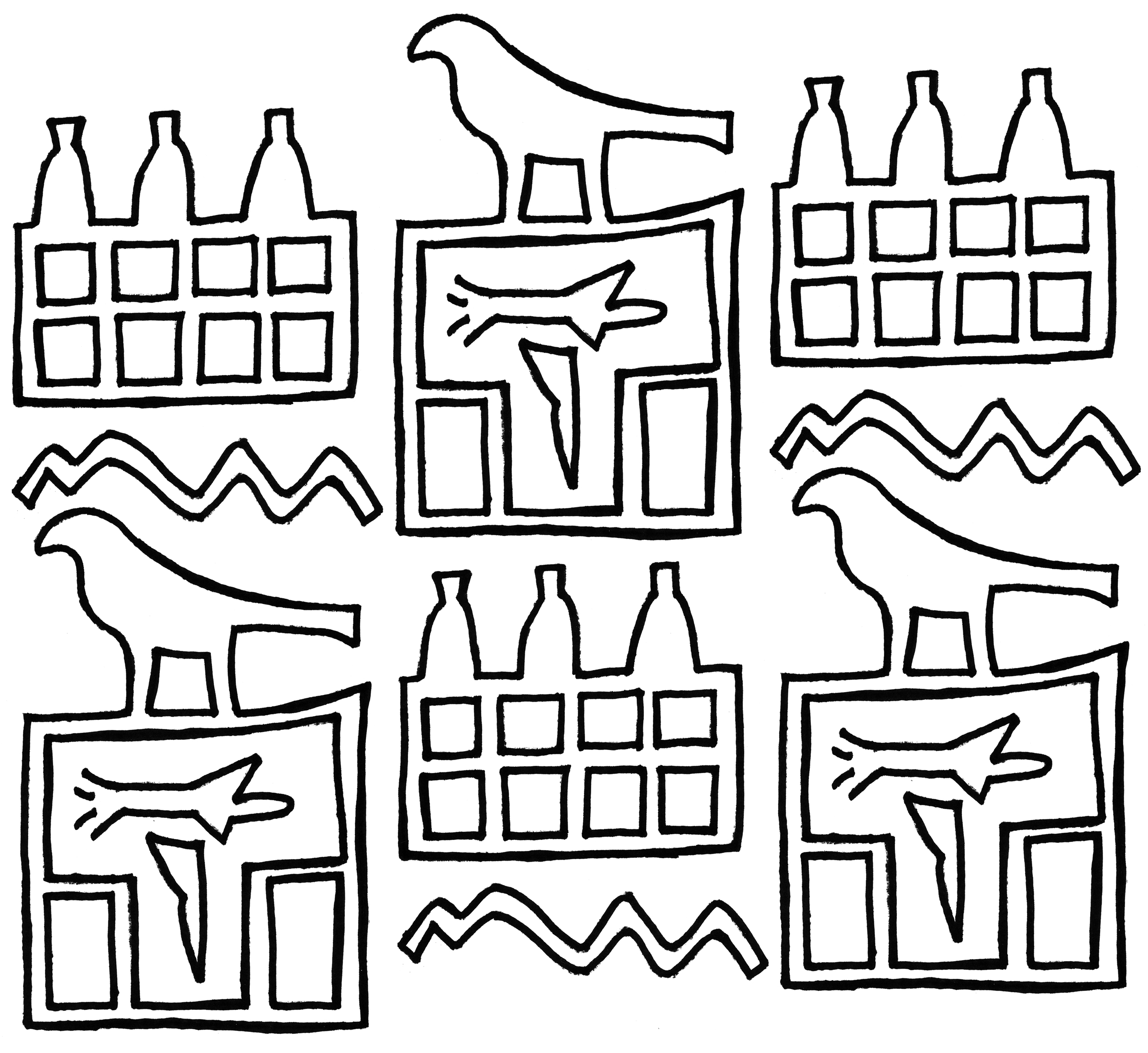 Reconstruction of the Narmer-Menes Seal impression from Abydos